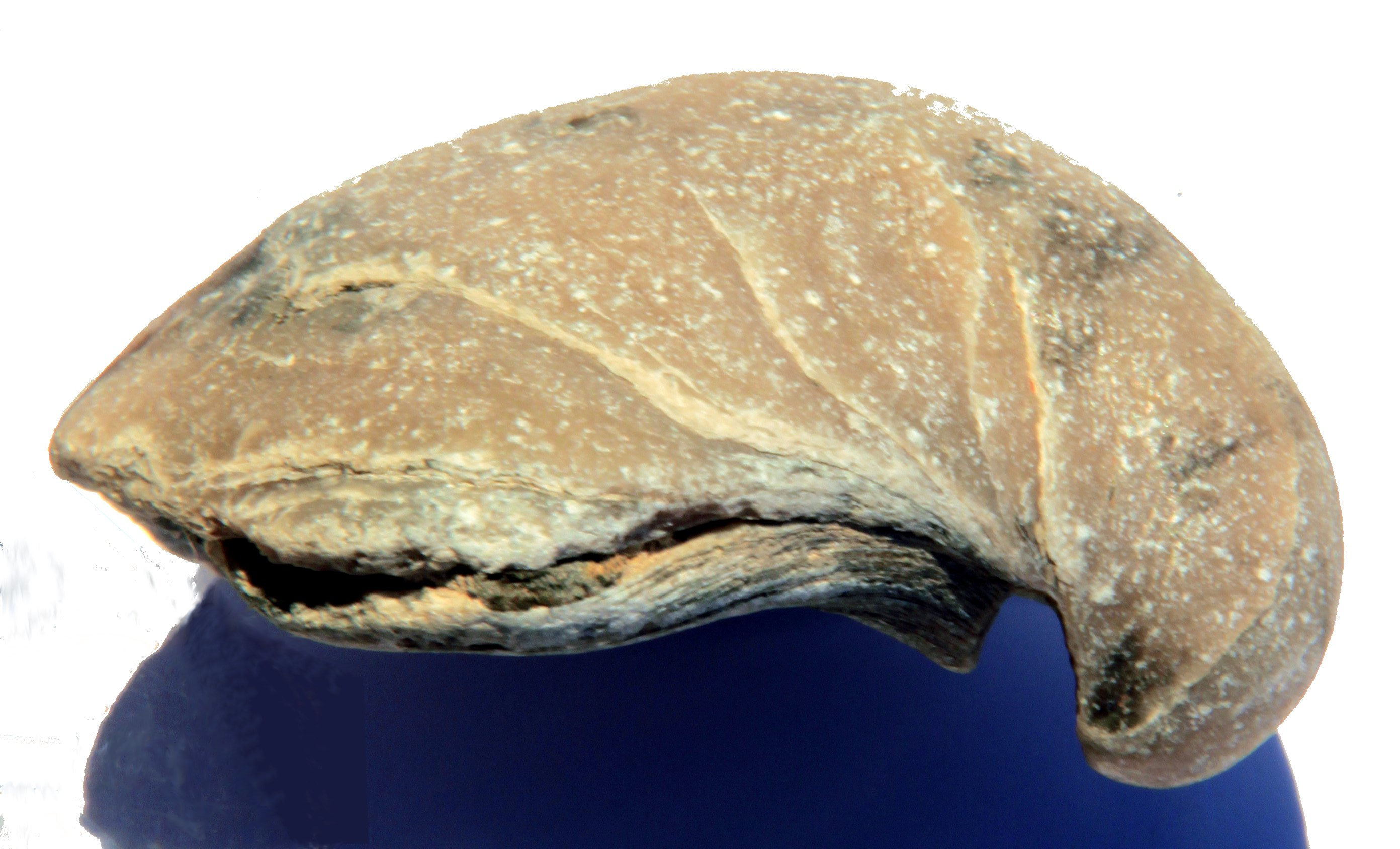 A Devil's Toe Nail or Gryphaea dilatata, Order Ostreoida, Family Gryphaeidae, 56mm along the axis, lateral view, collected from the Falaise de Vache Noir, near Houlgate, Normandy, France, from the Upper Jurassic (Oxfordian)